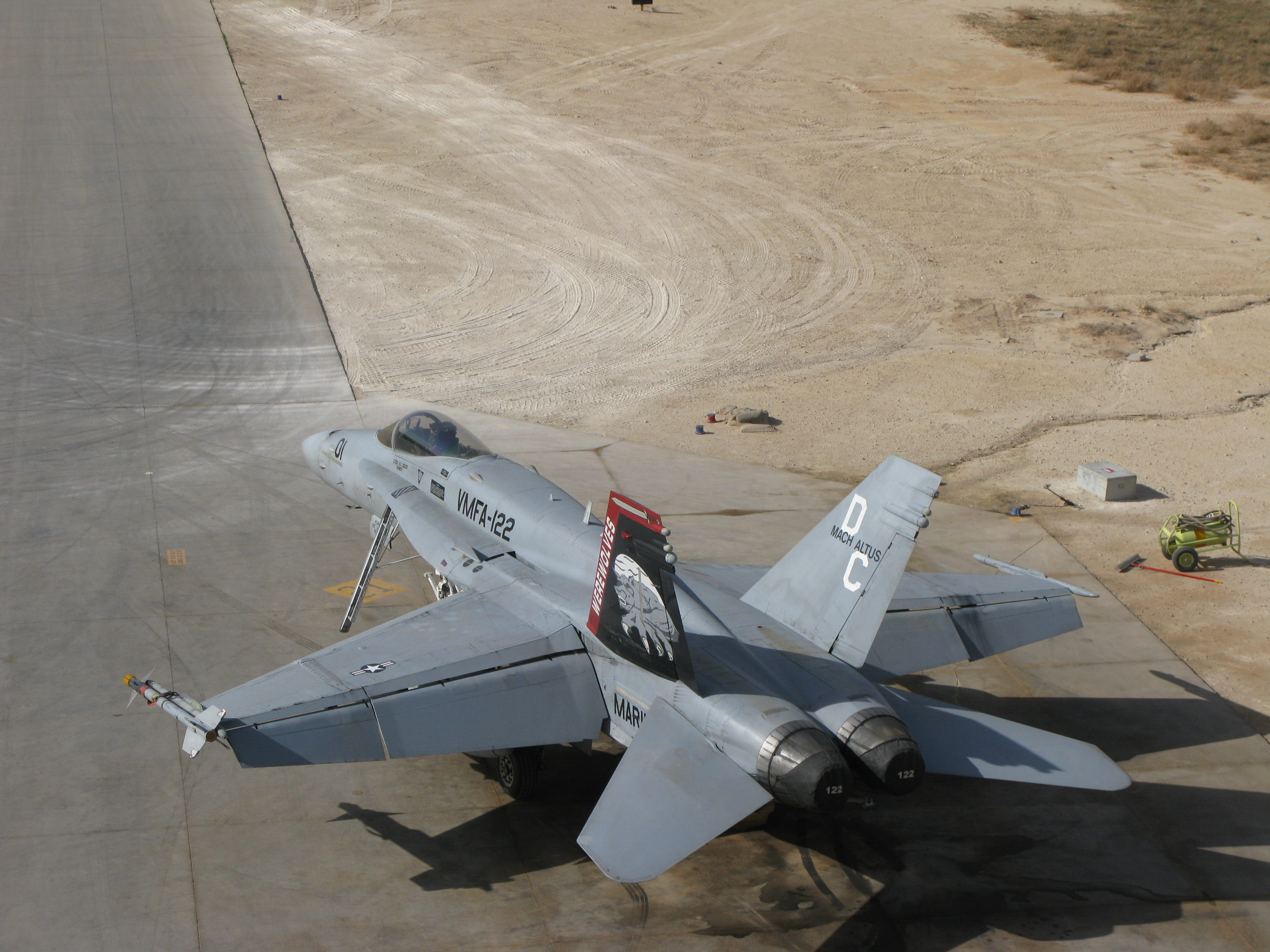 An F/A-18 Hornet from Marine Fighter Attack Squadron 122 sits on the ramp at Al Asad, Iraq.